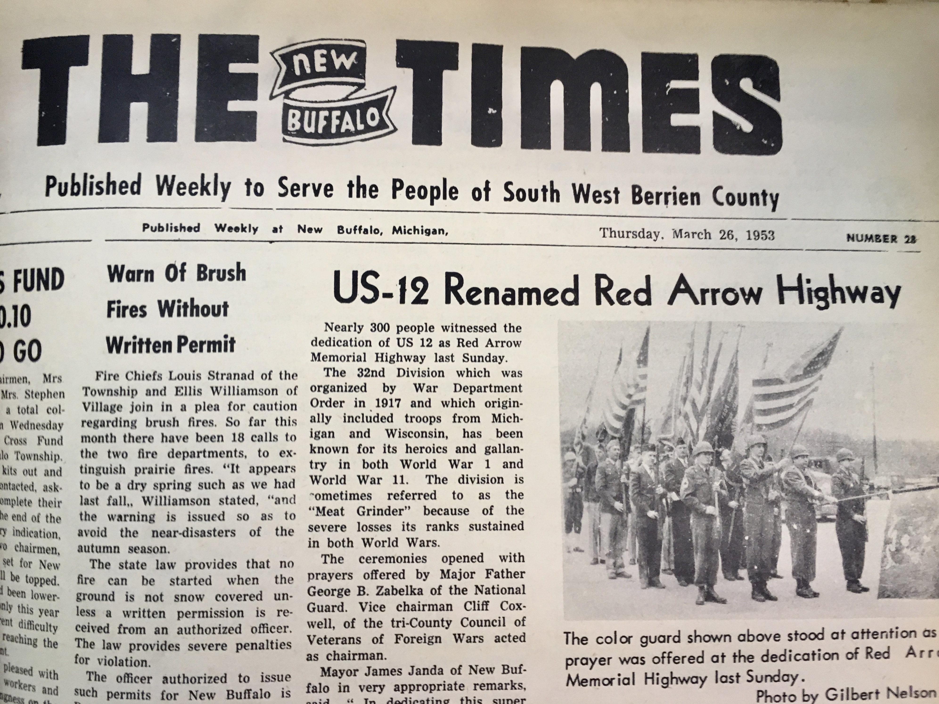 This is a picture of the New Buffalo Times newspaper in 1953. The picture was taken and used for the Region of Three Oaks Museum.